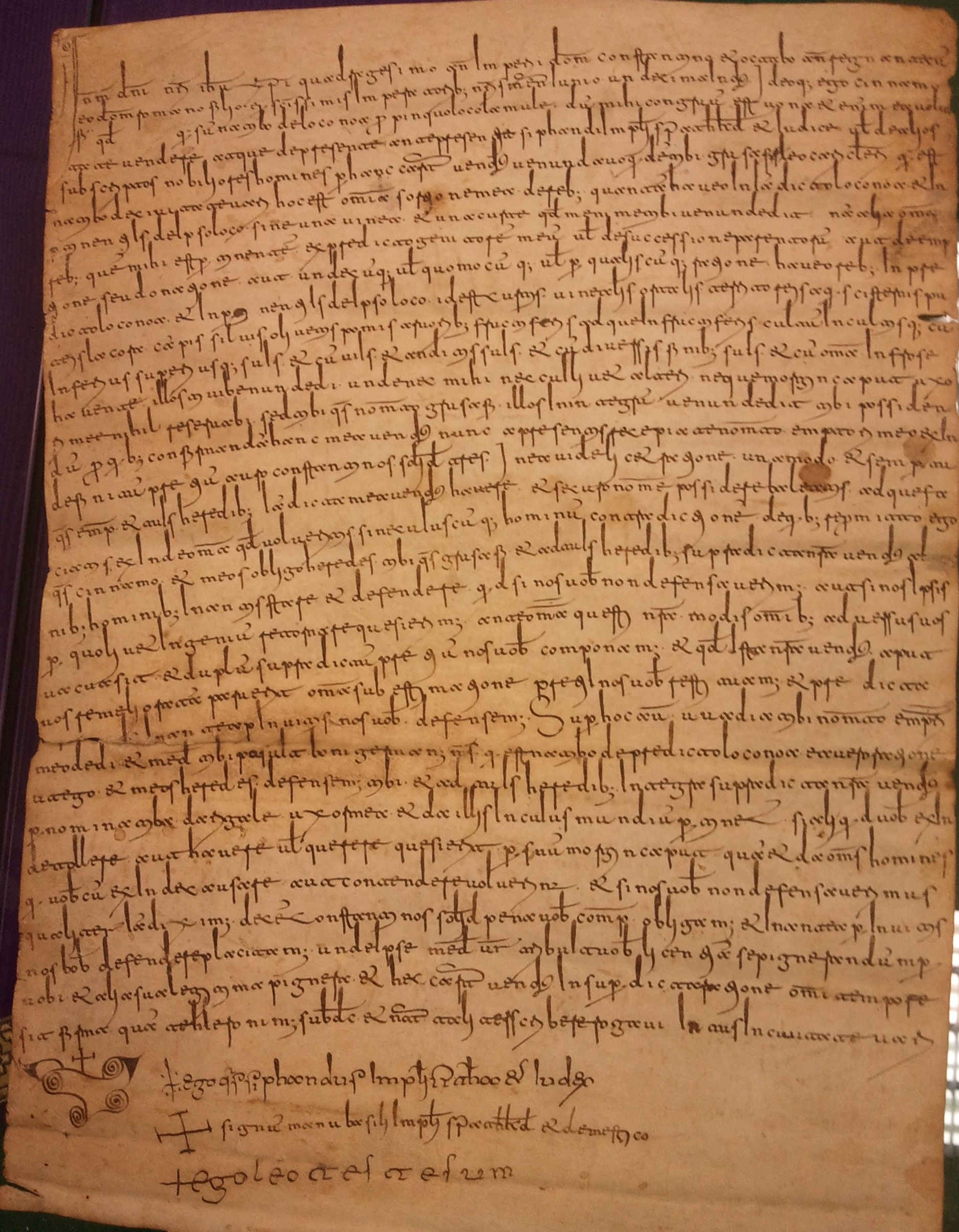 Private document in Beneventan script (notarial type).